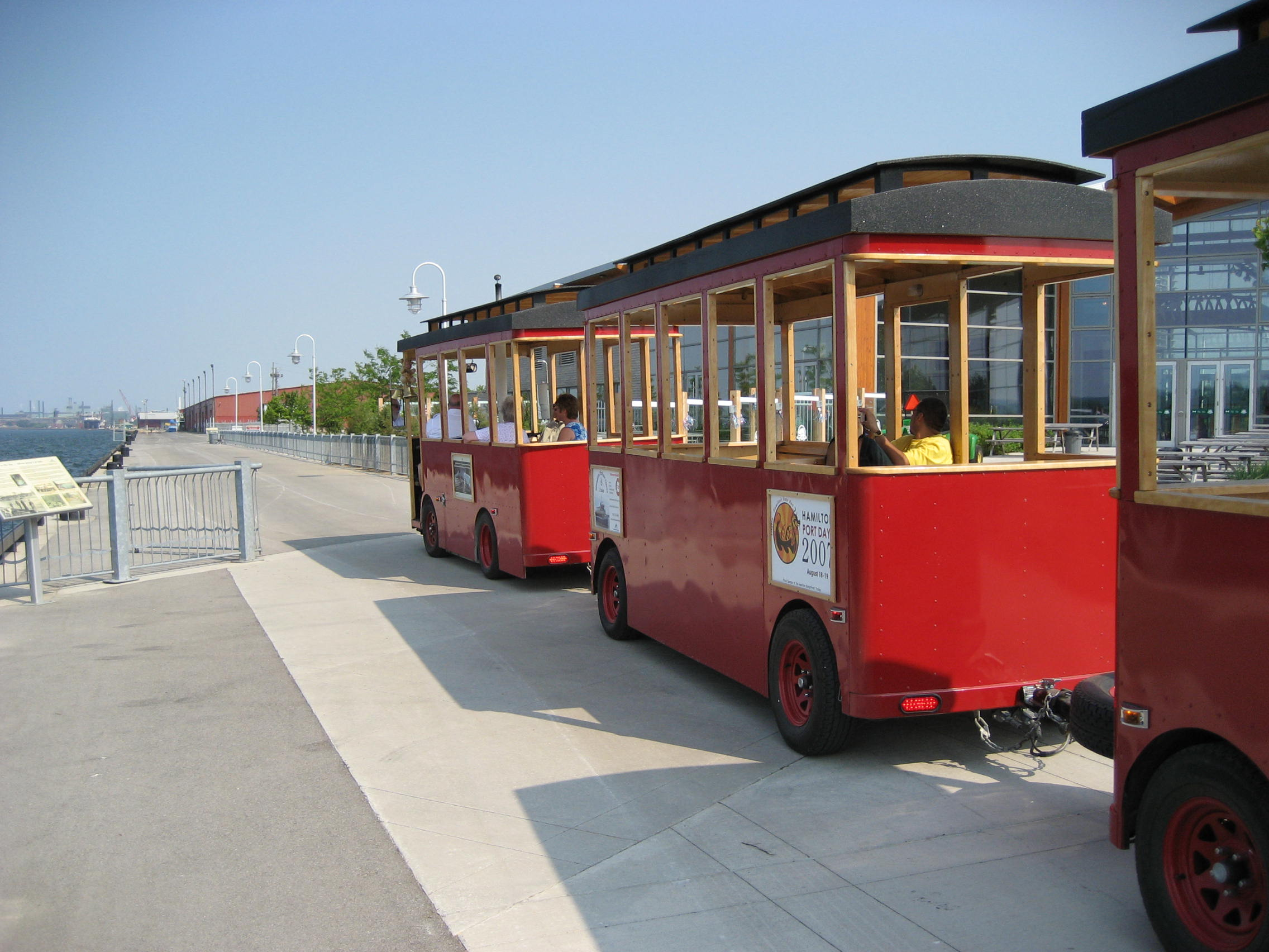 Waterfront Trolley, Pier 8 connecting to Pier 9, Hamilton, Ontario